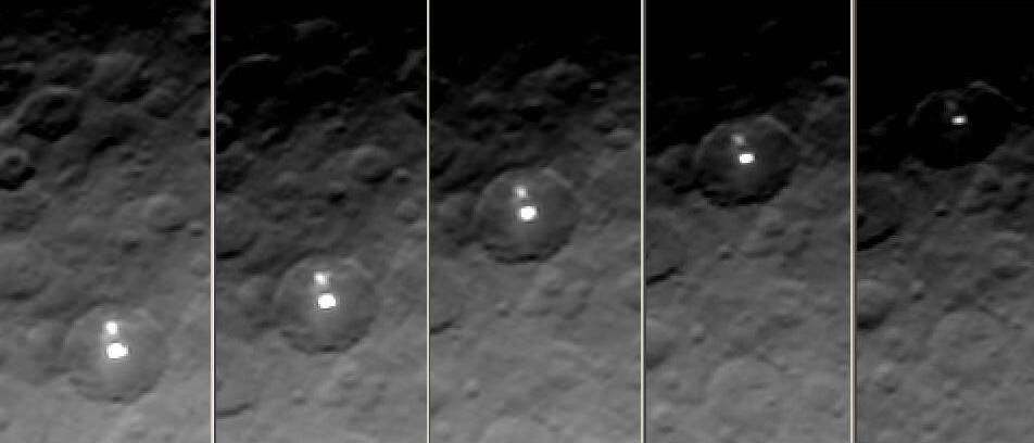 These cropped frames are from an animation of Ceres rotation taken by NASA's Dawn mission during its approach to the dwarf planet. The images were taken on Feb. 19, 2015, from a distance of nearly 29,000 miles (46,000 kilometers). Dawn observed Ceres for a full rotation of the dwarf planet, which lasts about nine hours. The original images in this sequence have a resolution of 2.5 miles (4 kilometers) per pixel; here, the images have been magnified by a factor of two. This animation does not show a complete rotation, but instead shows six hours and 45 minutes of the nine-hour rotation. Dawn's mission is managed by NASA's Jet Propulsion Laboratory, Pasadena, California, for NASA's Science Mission Directorate in Washington. Dawn is a project of the directorate's Discovery Program, managed by NASA's Marshall Space Flight Center in Huntsville, Alabama. The University of California, Los Angeles, is responsible for overall Dawn mission science. Orbital ATK, Inc., in Dulles, Virginia, designed and built the spacecraft. The German Aerospace Center, the Max Planck Institute for Solar System Research, the Italian Space Agency and the Italian National Astrophysical Institute are international partners on the mission team. For a complete list of acknowledgments